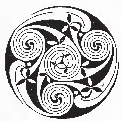 Celtic spirals from the book Celtic art in pagan and Christian times (1904), by Allen, J. Romilly (John Romilly), 1847-1907